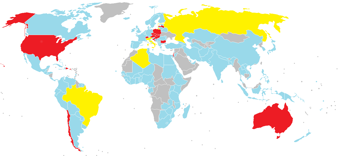 Will adopt the Compact Won't adopt the Compact Considering not adopting Data incomplete